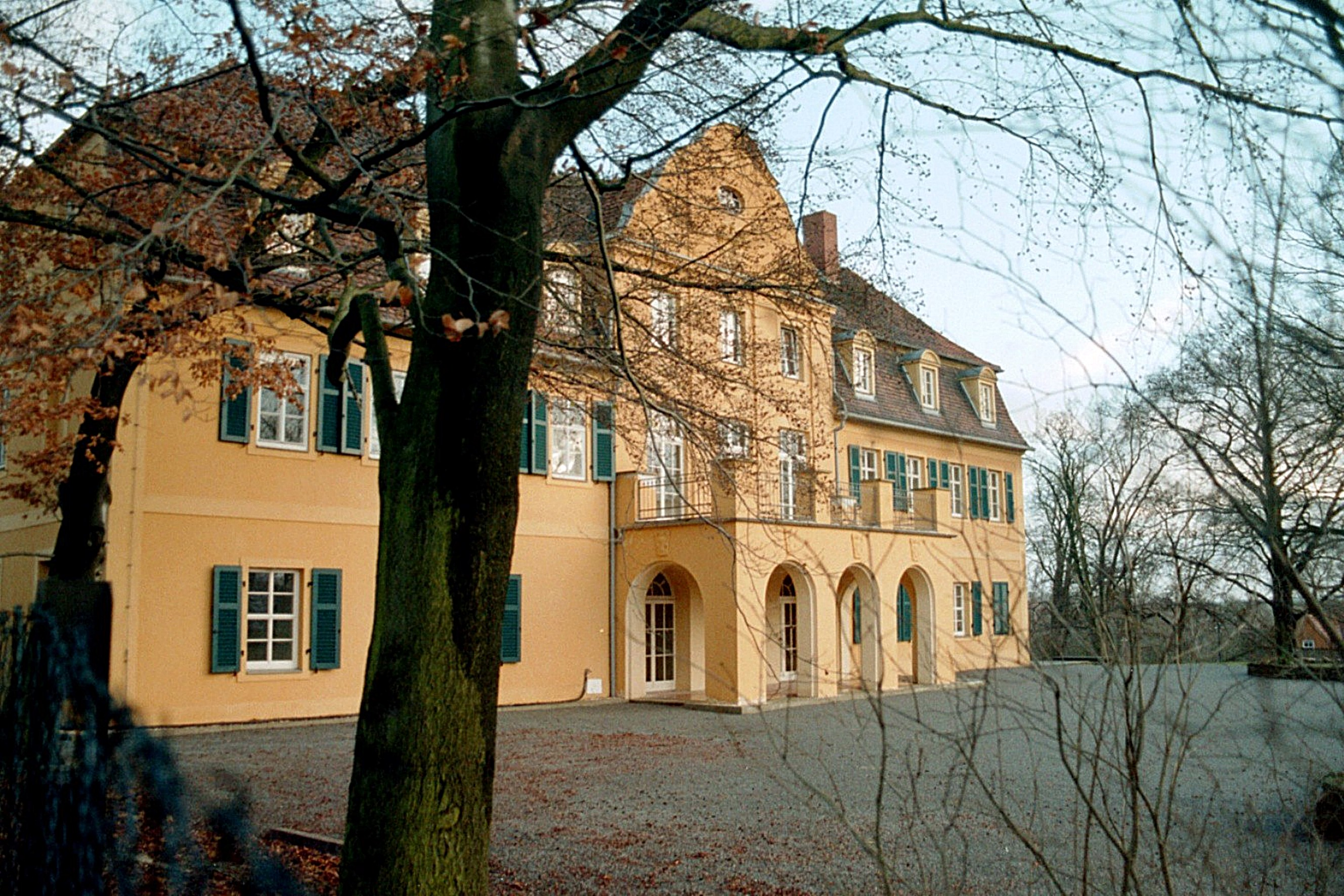 Goesen, the manor house